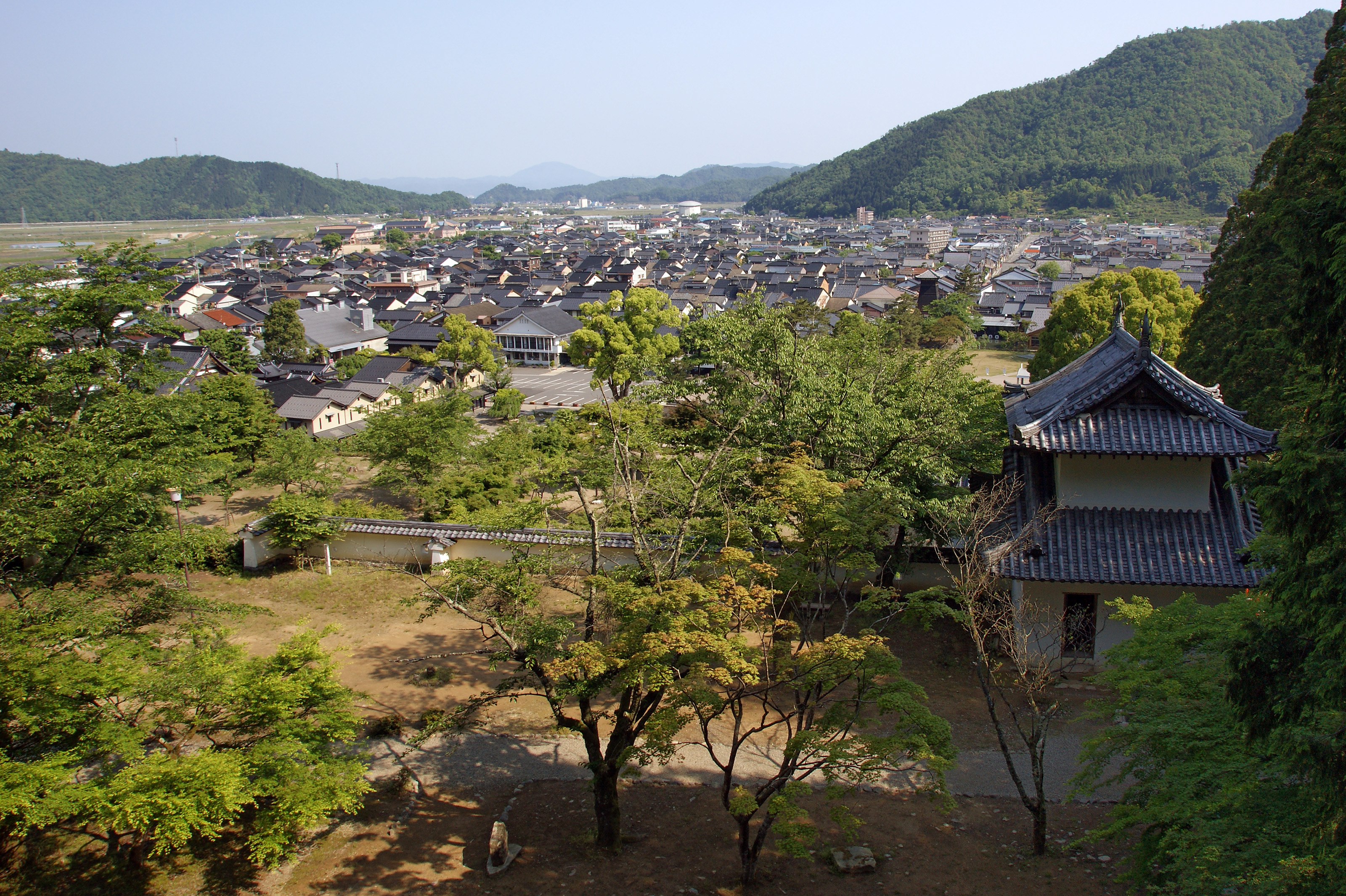 Izushi town view from Izushi Castle in Toyooka, Hyogo prefecture, Japan